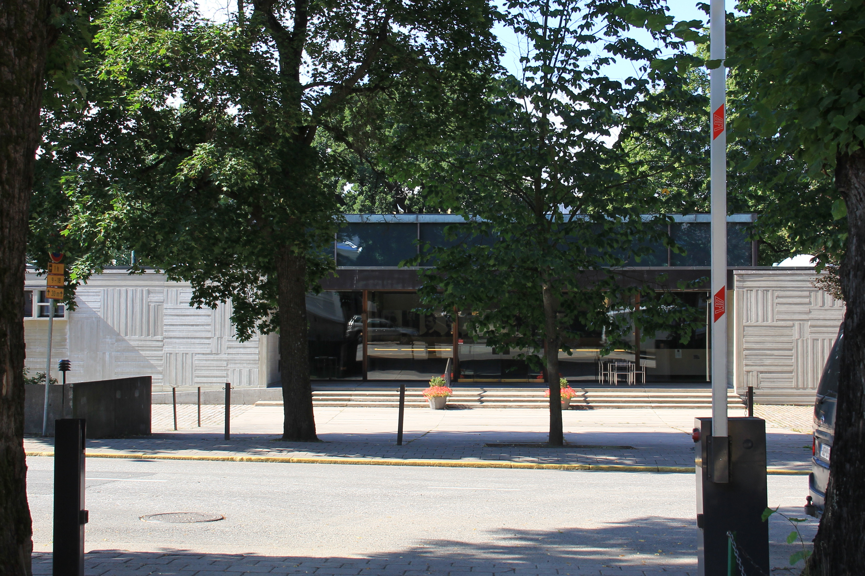 Sibelius museum, Turku, Finland. -Entrance seen over Piispankatu. Designed by architect Woldemar Baeckman, completed in 1968.